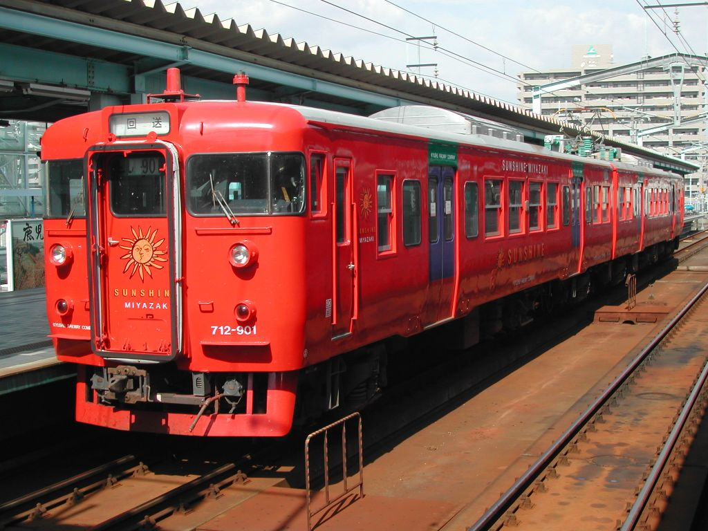 JR Kyushu 713 series EMU set LK901 in "Sunshine" livery (location unknown)